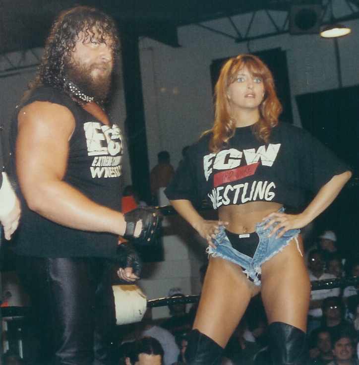 Professional wrestler Damien Kane and valet Lady Alexandra.